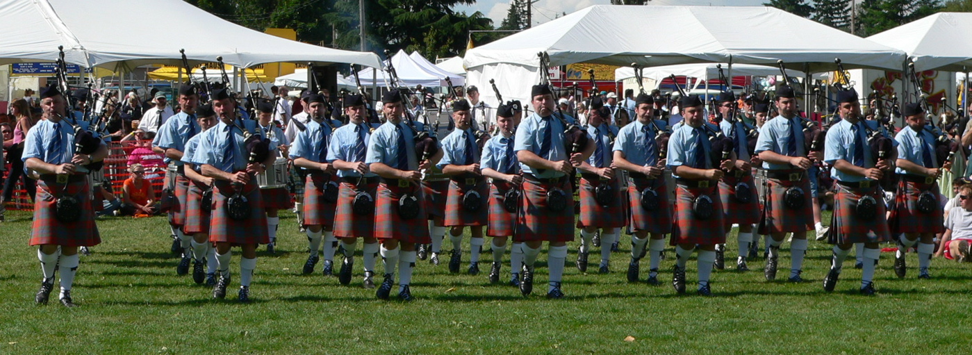 The 4-time World Champion Simon Fraser University Pipe Band performs at the 2005 Skagit Valley Highland Games in Mount Vernon, Washington.